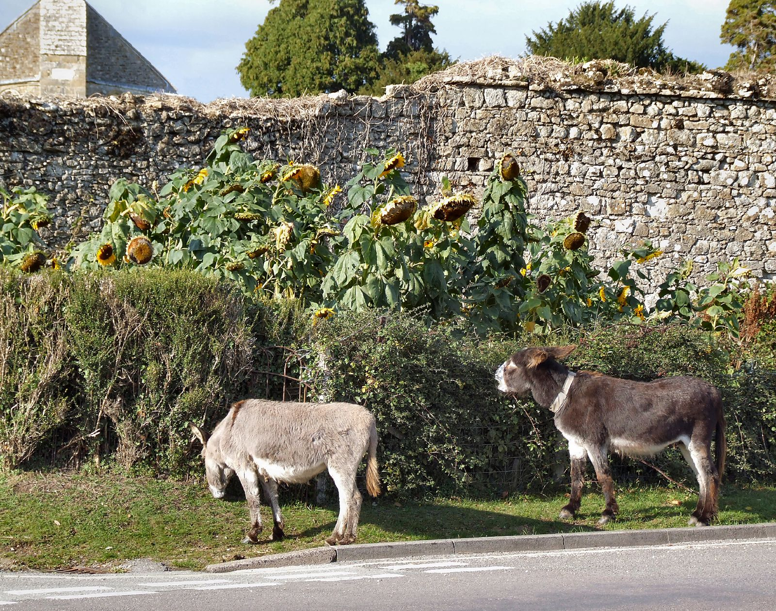 The sunflowers are wilting but these two Donkeys are not bothered. Photographed outside Beaulieu Abbey on a quiet midweek afternoon.